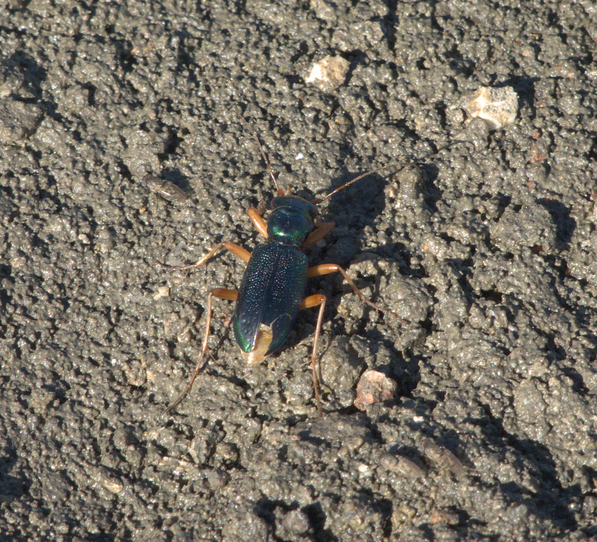 Tetracha virginica, Virginia Metallic Tiger Beetle, ID Confidence: 90